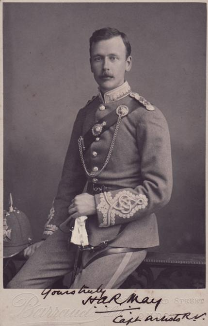 Henry Allan Roughton May was born on 23 August 1863. A solicitor by profession, he was a member of Minet, May & Co. He was in command of the Artists’ Regiment from 1912 to 1915 and again from 1919 to 1920. He served in the First World War and was mentioned in despatches. In 1889 he married Fanny Rose Allen, daughter of Thomas Allen of Markshall near Norwich. In 1929 he published Memories of the Artists Rifles. Colonel May died on 10 April 1930.